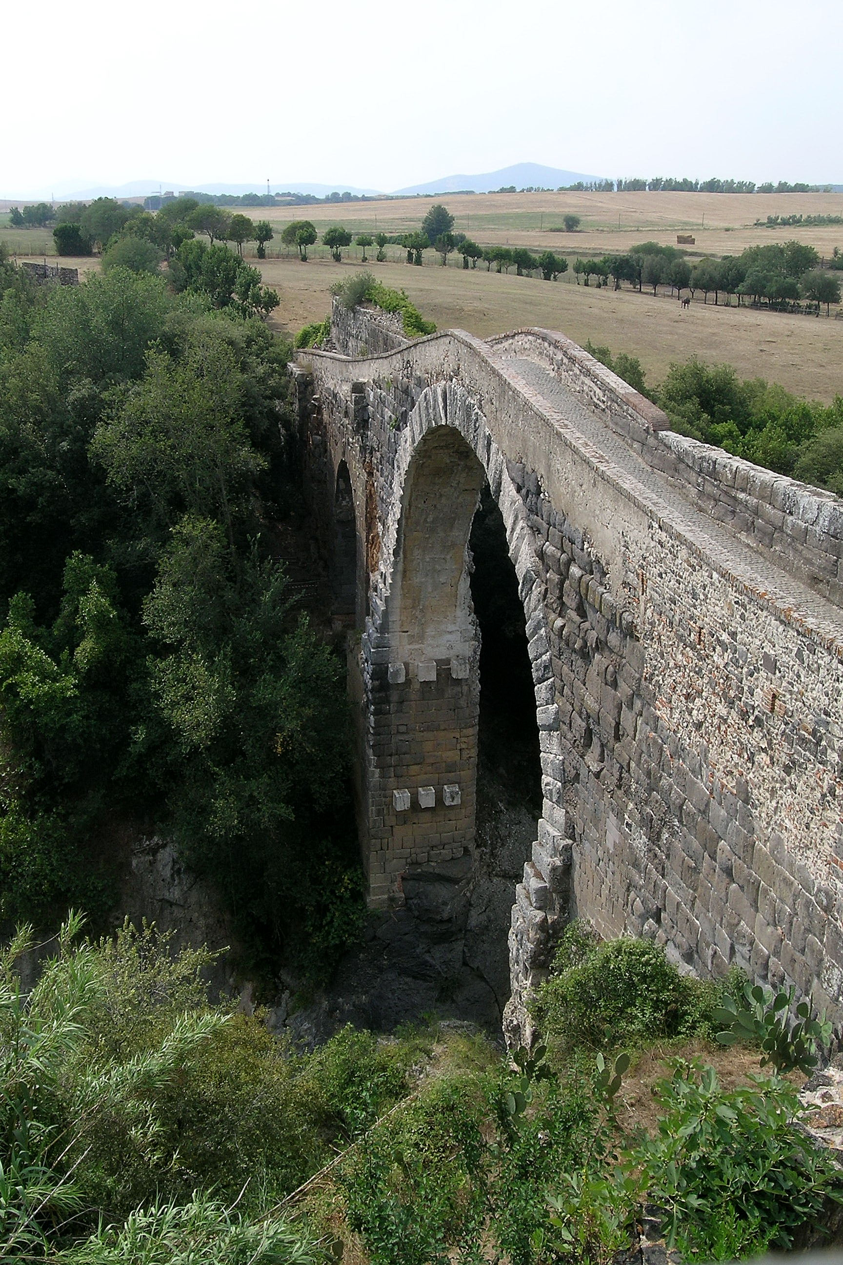 Aquaeduct over river Fiora